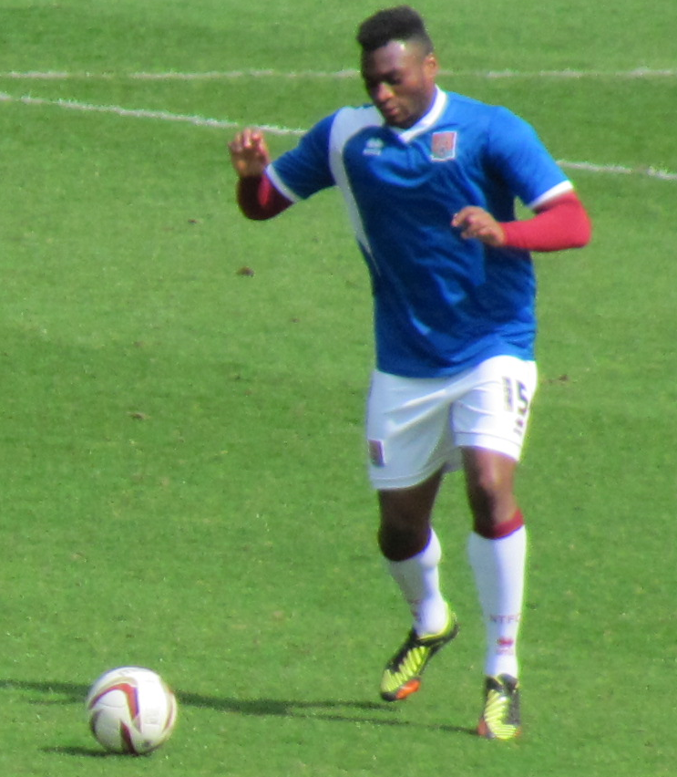 Pictured during the 2-2 draw between Port Vale and Northampton Town on 20 April 2013.